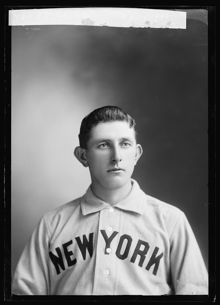 New York Giant player Charlie Gettig photographed by C. M. Bell Studio